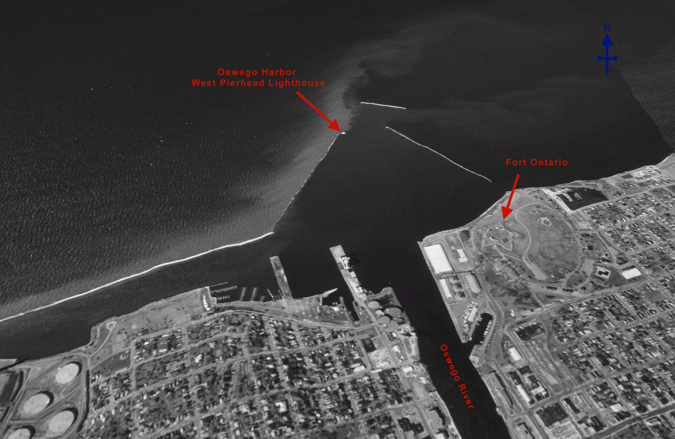 Faux aerial image of Oswego, New York waterfront showing locations of Oswego Harbor West Pierhead Lighthouse, Fort Ontario and Oswego River.